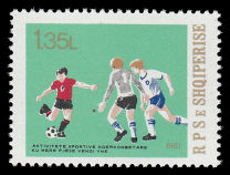 A 1981 Albanian stamp commemorating the game of football.